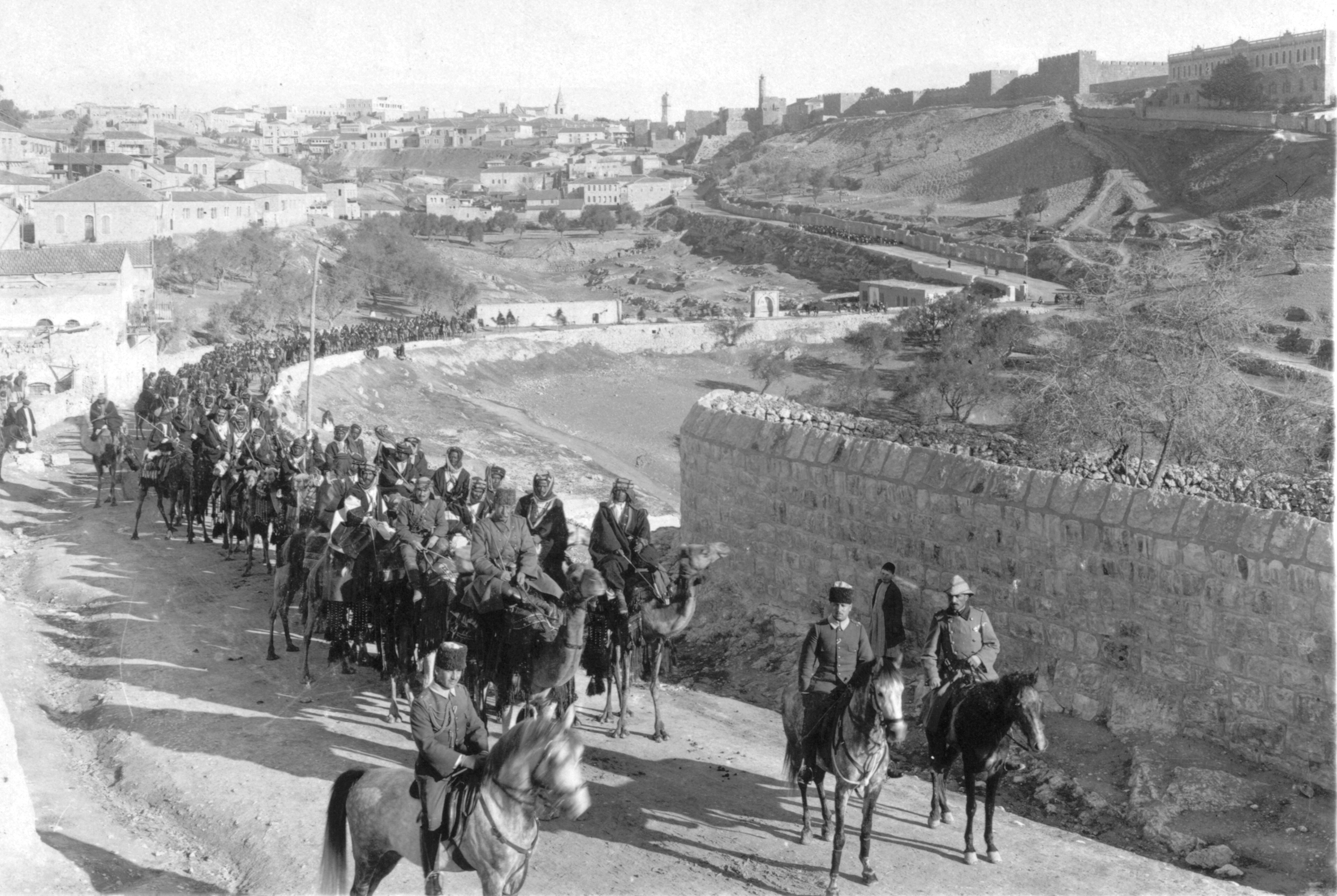 Volunteer Arab Camel Corps fr[om] S. Arabia leaving for the Front, 1916.